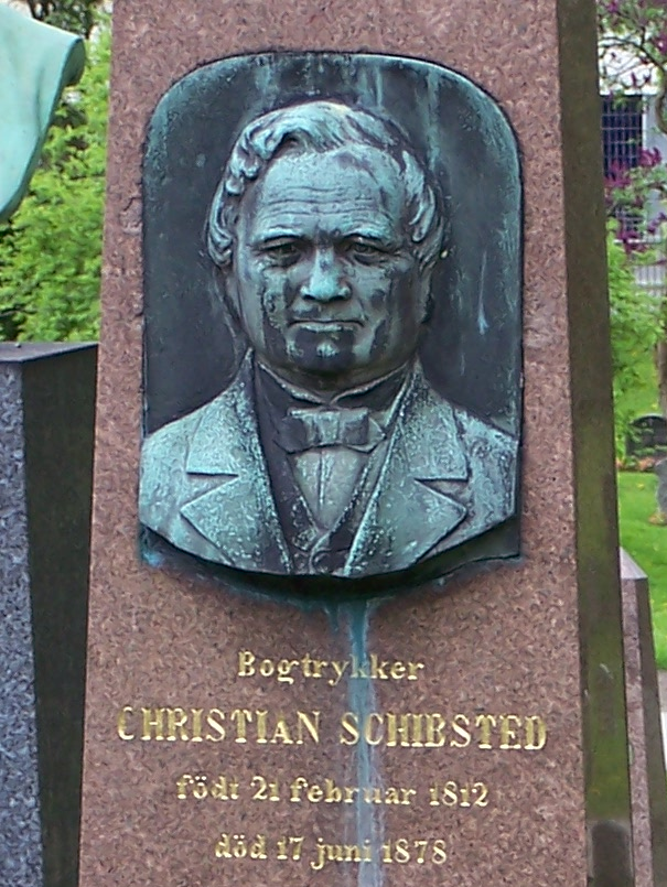 Tomb of Christian Schibsted at Vår Frelsers gravlund, Oslo. Portraitrelief by Jo Visdal, 1910